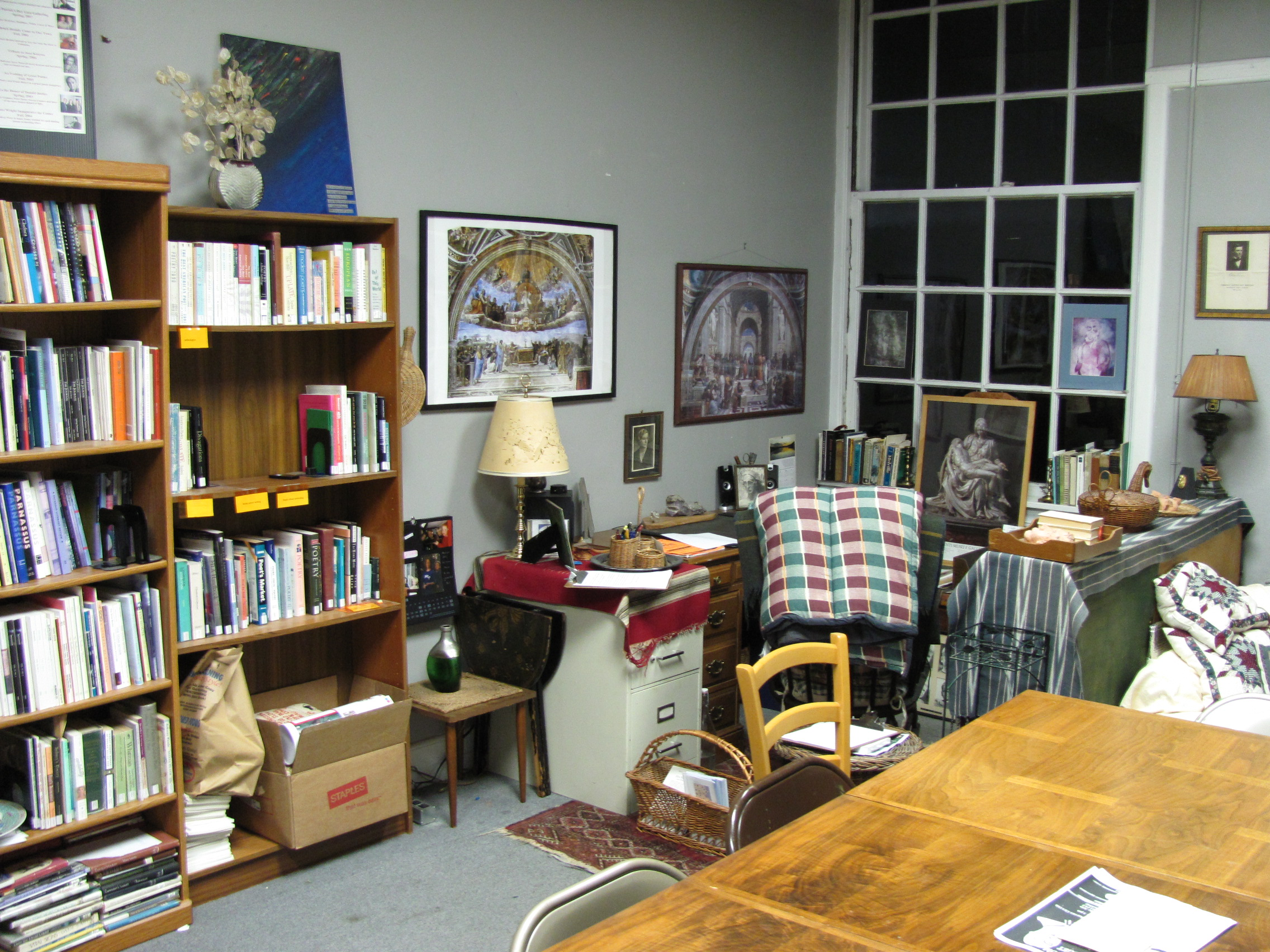 Concord Poetry Center, Concord Massachusetts